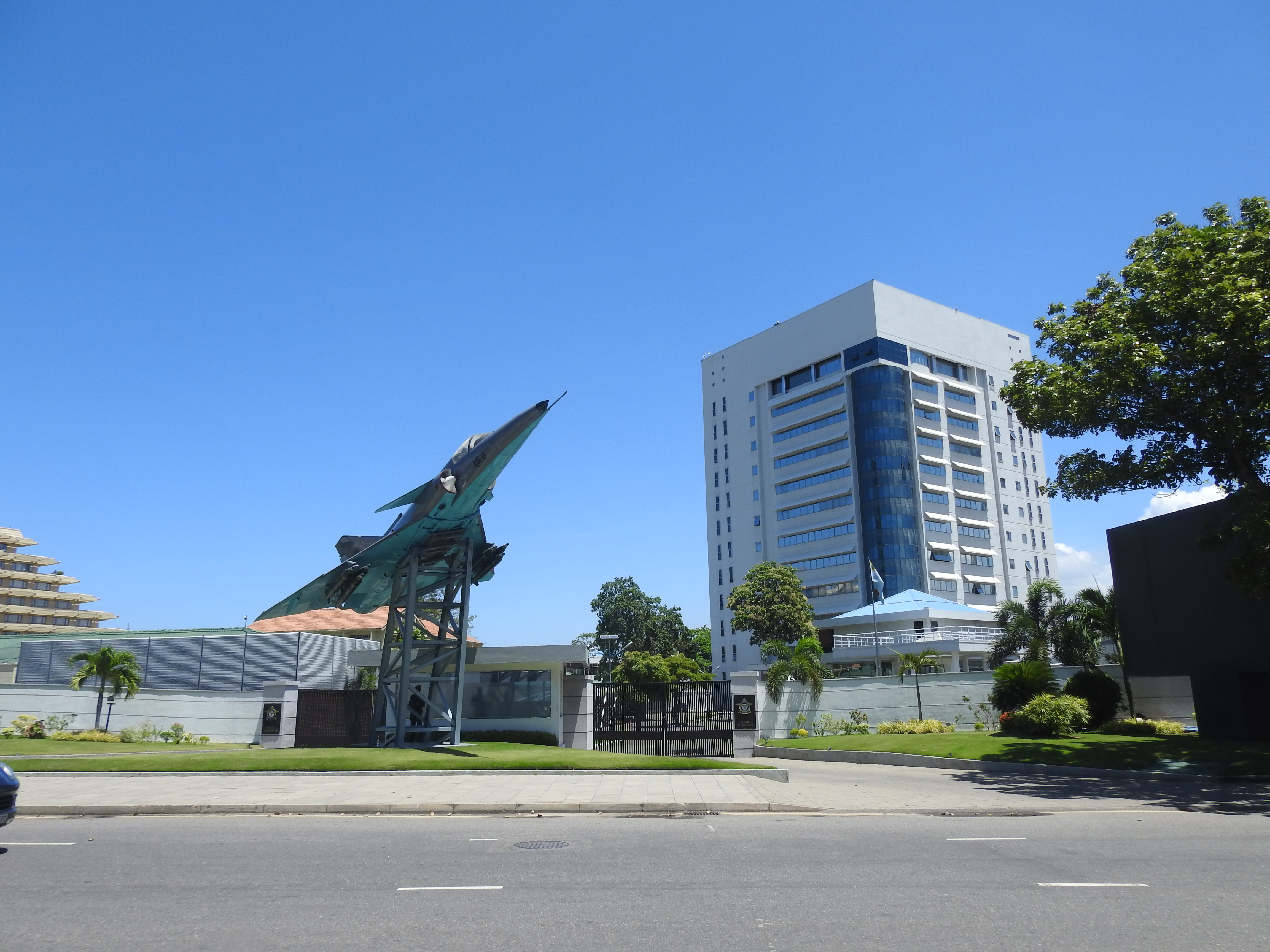 Photos of current/future skyscrapers (and its surroundings) in Colombo, taken by User:Rehman and User:Azeez as part of a photowalk project by Wikimedia Community User Group Sri Lanka. The photowalk covered most of the tallest structures in Colombo that are either completed or under construction. Further information on the subject(s) of the photograph can be found in the category/ies of this file.